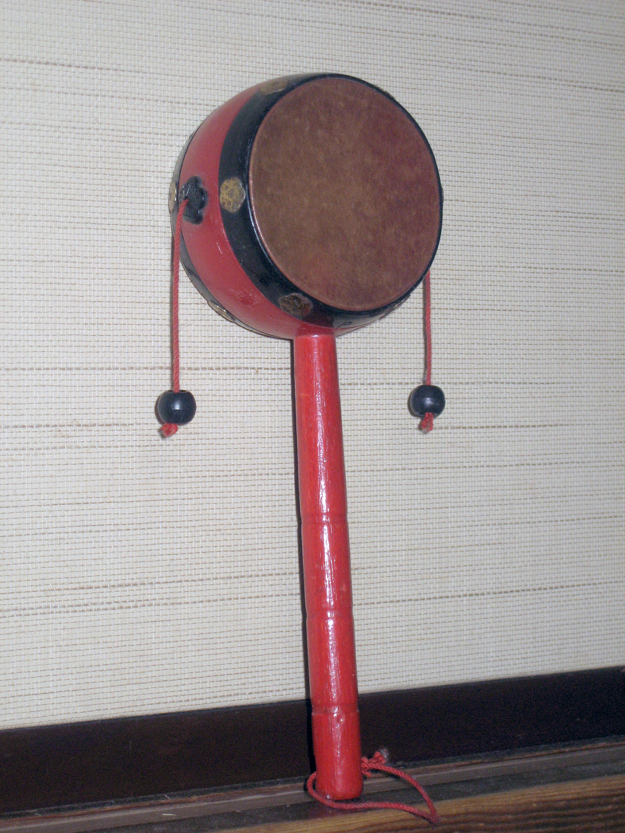 Image of a "wave drum".